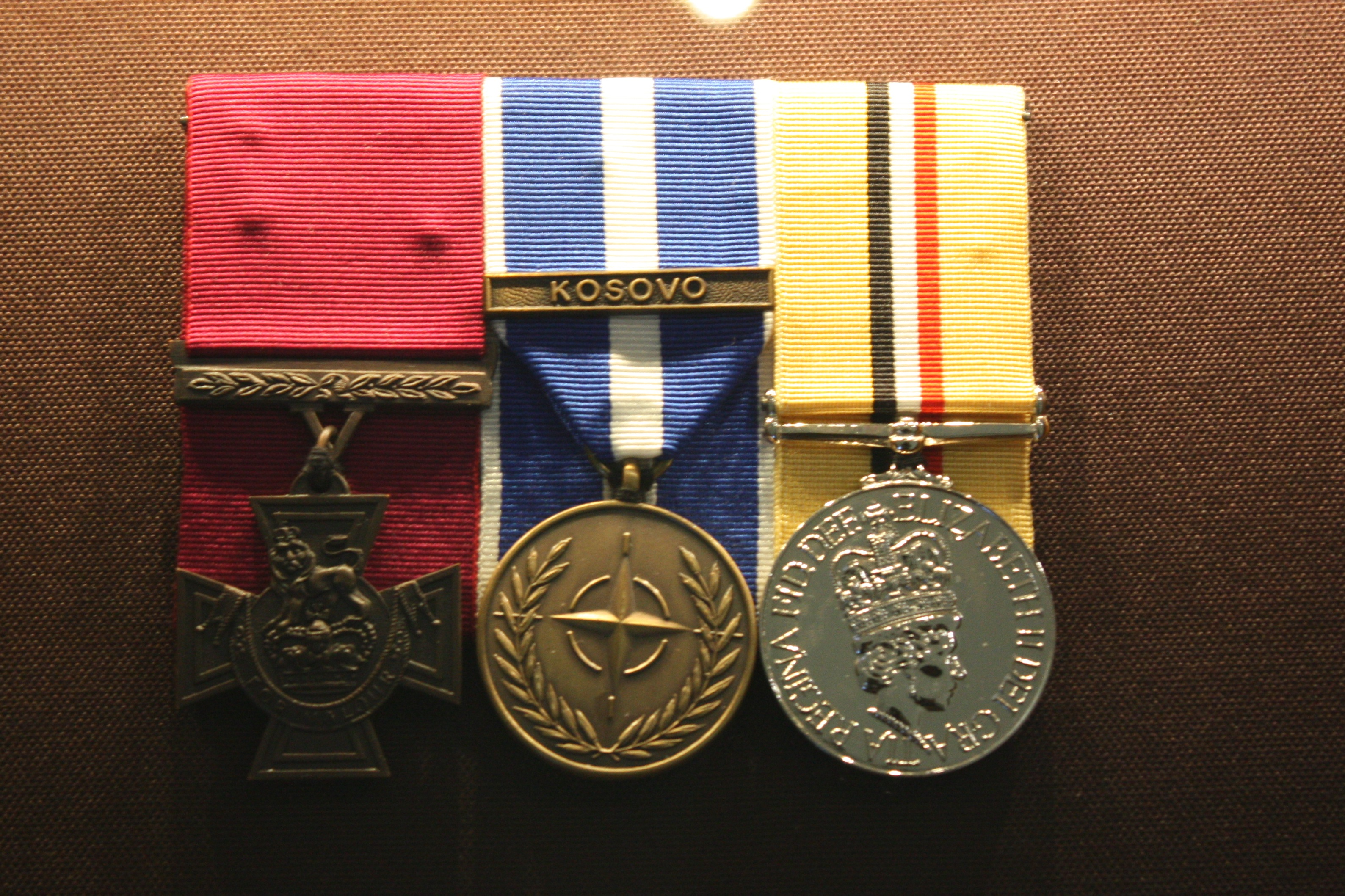 The medal group of Johnson Beharry including the Victoria Cross, the highest award for valour in the face of the enemy that can be awarded to British and some Commonwealth military personnel. The medals are on display in the Ashcroft Gallery at the Imperial War Museum London.